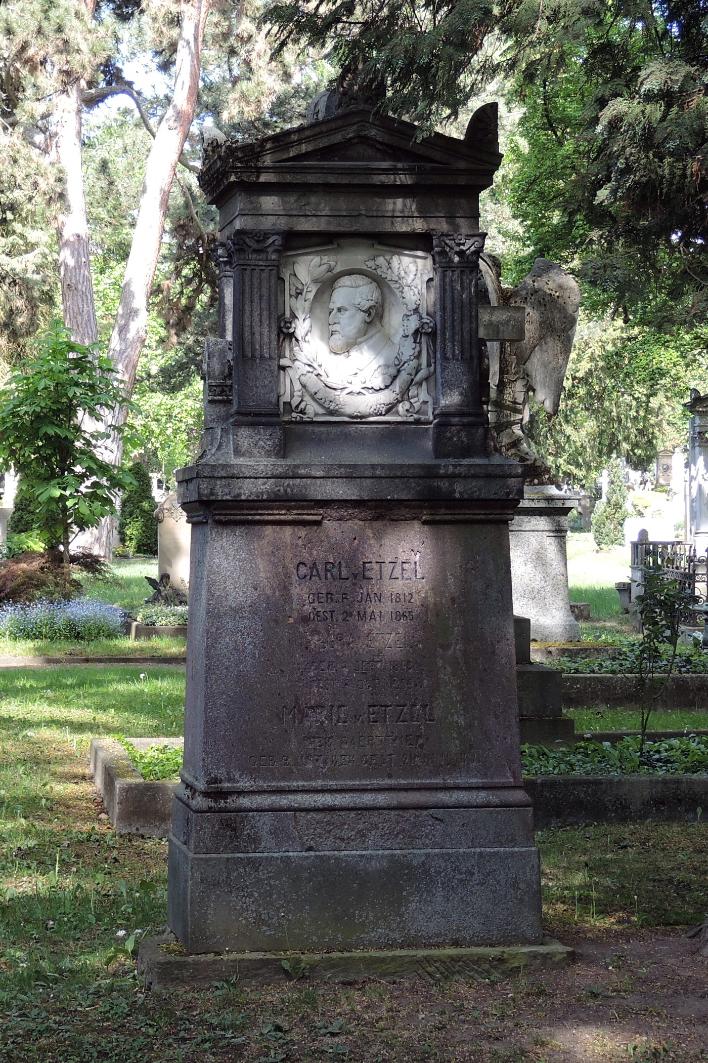 Karl Etzel, sepulchral monument, Pragfriedhof Stuttgart, Abteilung 8